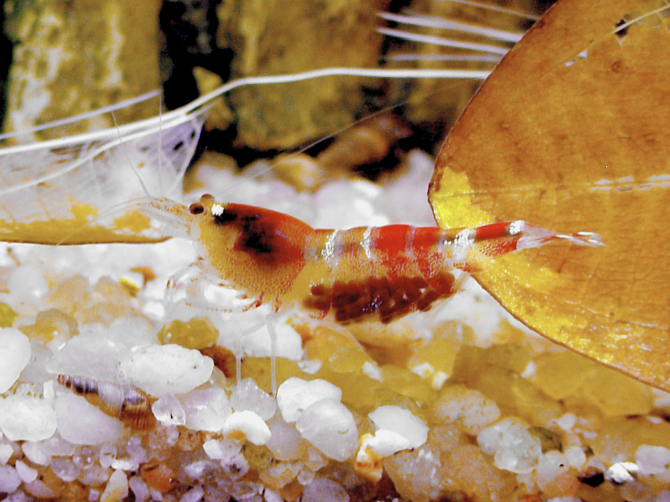 Crystal red shrimp with eggs